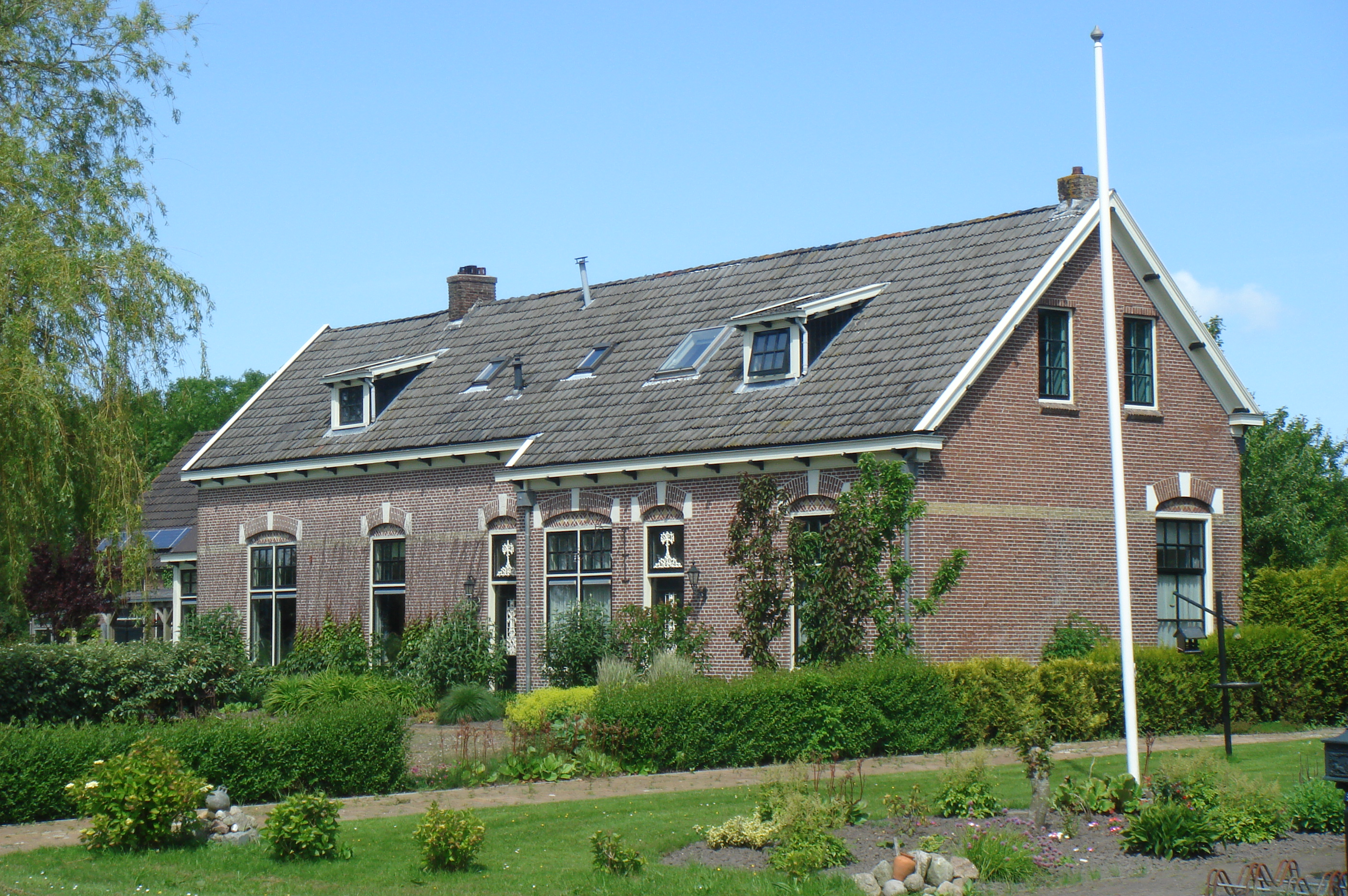 former railroad station Anjum